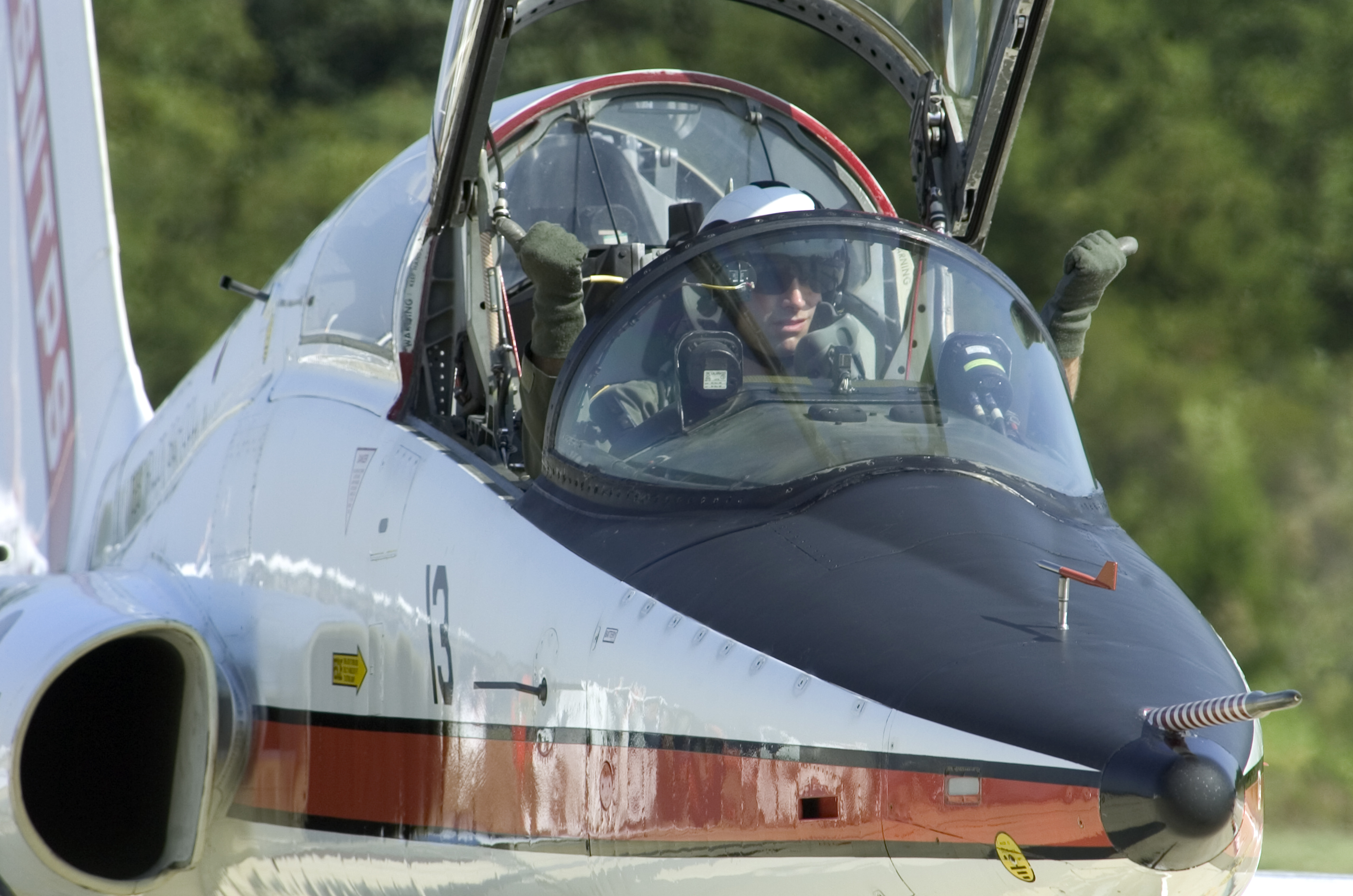 Patuxent River, Md. (Aug. 3, 2005) – The pilot of a T-38A Talon, assigned to the U.S. Naval Test Pilot School, gives the signal to remove the wheel chocks prior to taxiing to the active runway on board Naval Air Station Patuxent River, Md. The United States Naval Test Pilot School (USNTPS) provides instruction to experienced pilots, flight officers, and engineers in the processes and techniques of aircraft and systems test and evaluation. The school investigates and develops new flight test techniques, publishes manuals for use of the aviation test community for standardization of flight test techniques and project reporting, and conducts special projects. USNTPS operates approximately 50 aircraft of 13 types. U.S. Navy photo by Photographer’s Mate 2nd Class Daniel J. McLain (RELEASED)